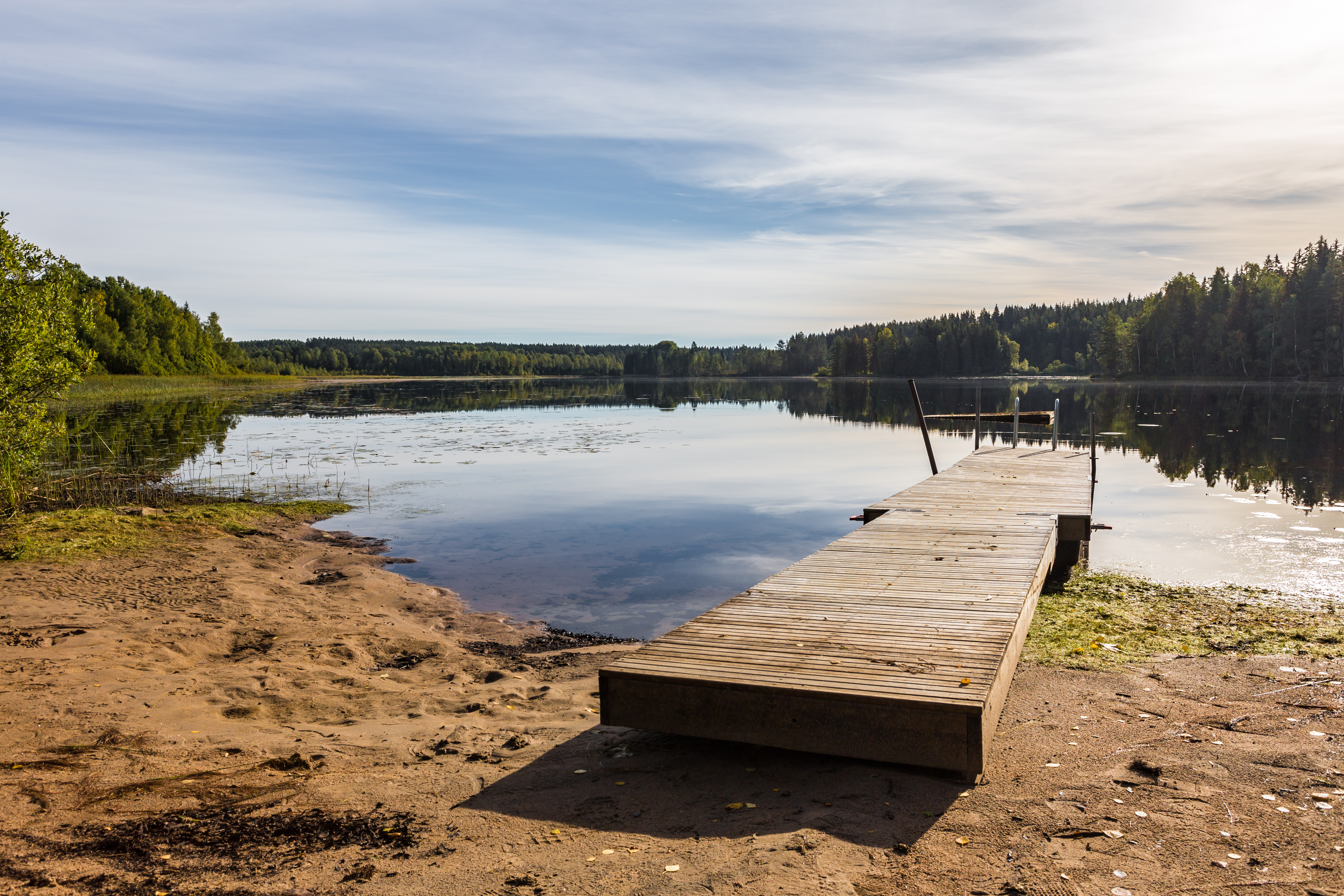 Lake Bersen, Smedjebacken Municipality, Dalarna County, Sweden.